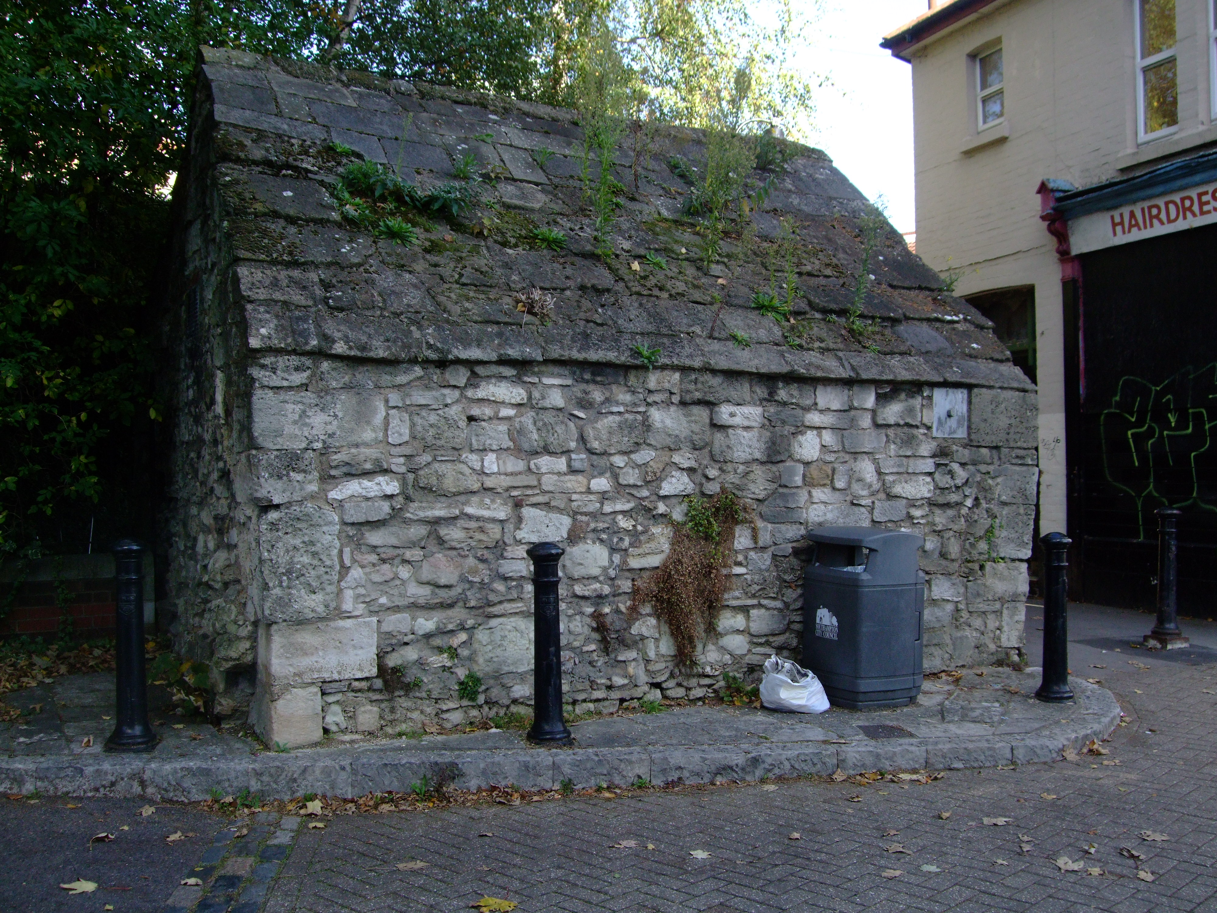 Conduit House is part of the now-defunct medieval water supply system, originally built by the Franciscan friars of Southampton to bring in water from far outside the city walls. The exact purpose of this stone building, which lies just off Commercial Road, is unknown.